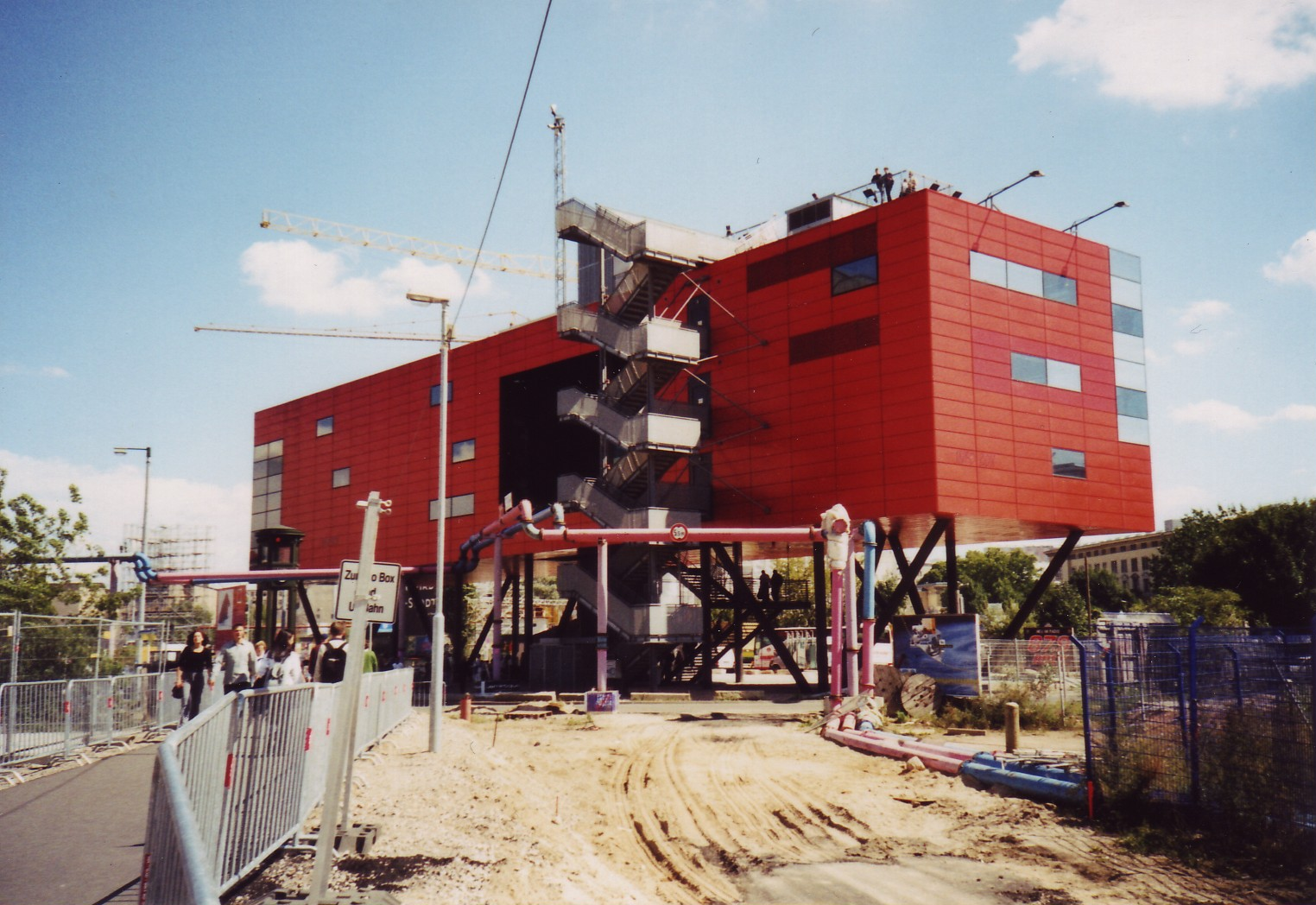 Infobox in Berlin